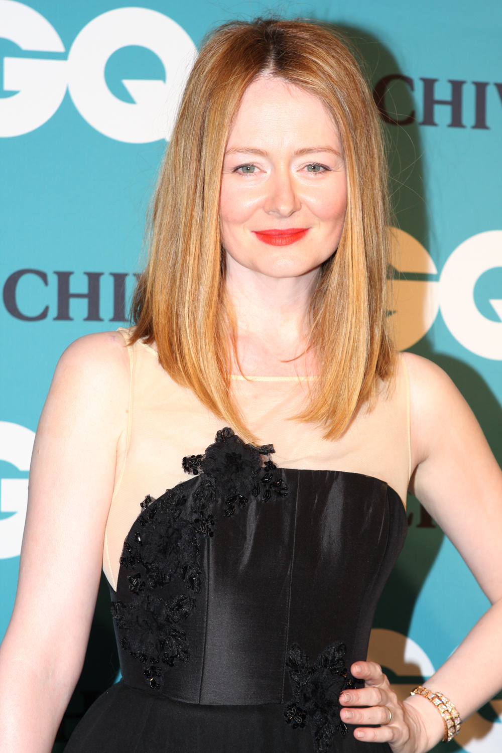 Miranda Otto at the The Ivy Ballroom in Sydney, November 2012.